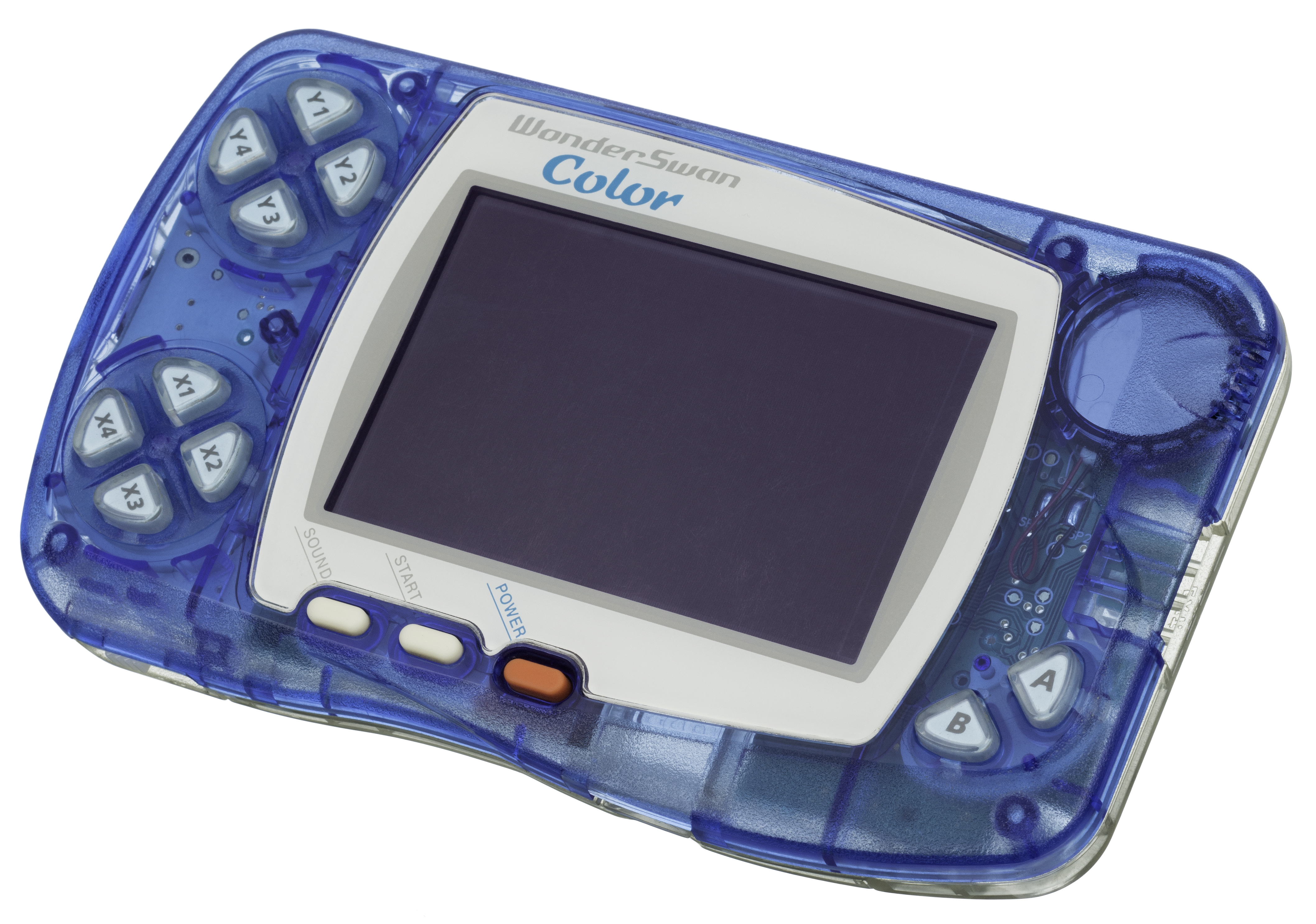 The WonderSwan Color, a Japanese handheld gaming console released in late 2000. The WonderSwan Color was the follow-up to Bandai's original monochrome WonderSwan that was released the previous year. The new handheld could now display in color and also had some other minor improvements. The LCD used for the color screen was a non-backlit FSTN type, which was picked in consideration of cost. However, this lower-quality screen didn't look as good as the TFT LCD screens featured in rival handhelds the Neo Geo Pocket Color and the Game Boy Color. Bandai would later release the Swan Crystal, another revision that featured a higher quality TFT LCD screen.